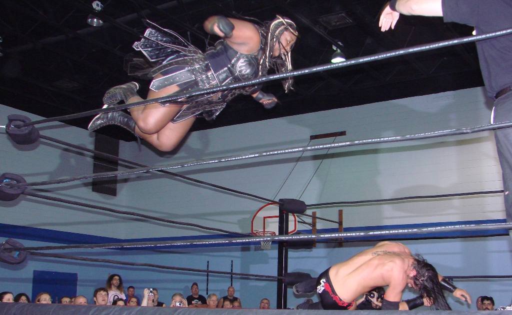 Amazing Kong performing a diving splash on Tyler Black at an NWA Midwest event. Streamwood, IL, September 22en:2007.